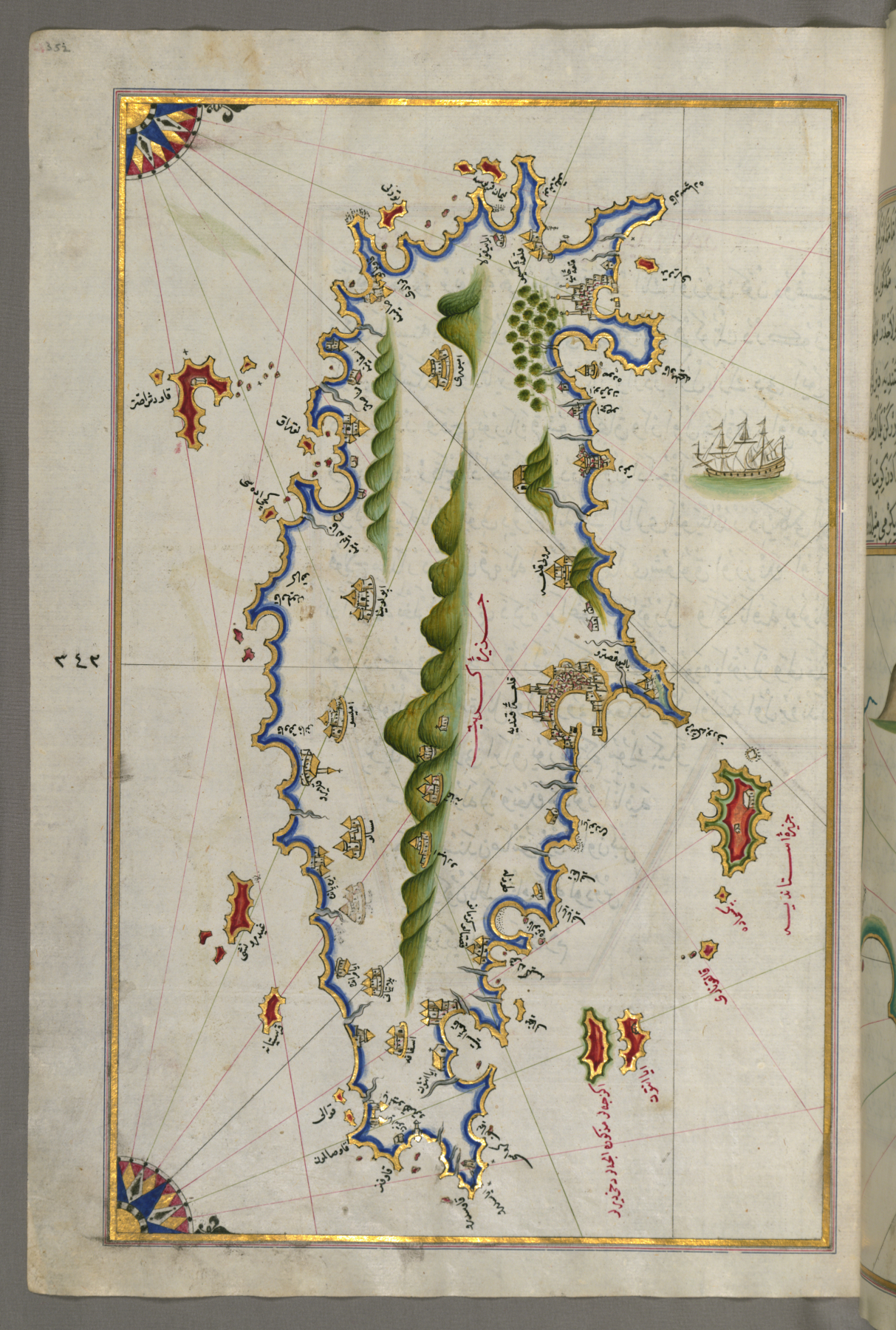 This folio from Walters manuscript W.658 contains a map of the Island of Crete.